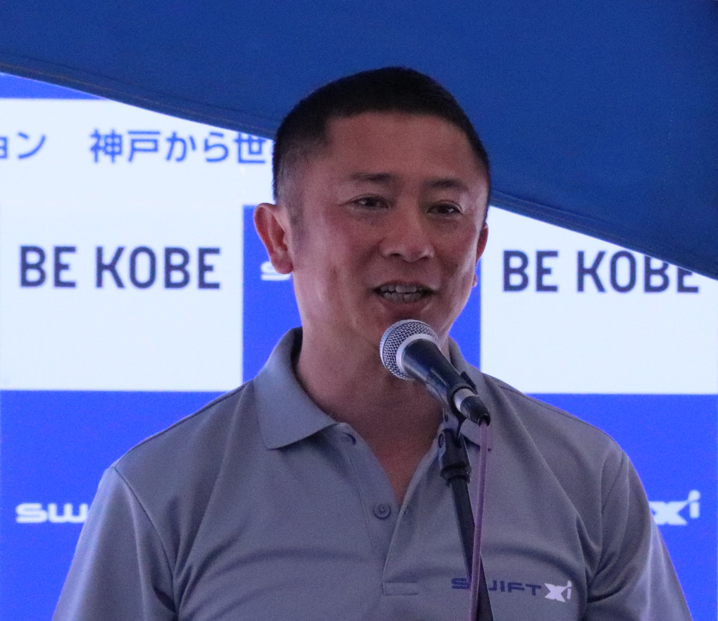 a picture of Hiro Matsushita at demo flight of UAS, Swift020. I took it in Kobe Merikenpark at 21st July.